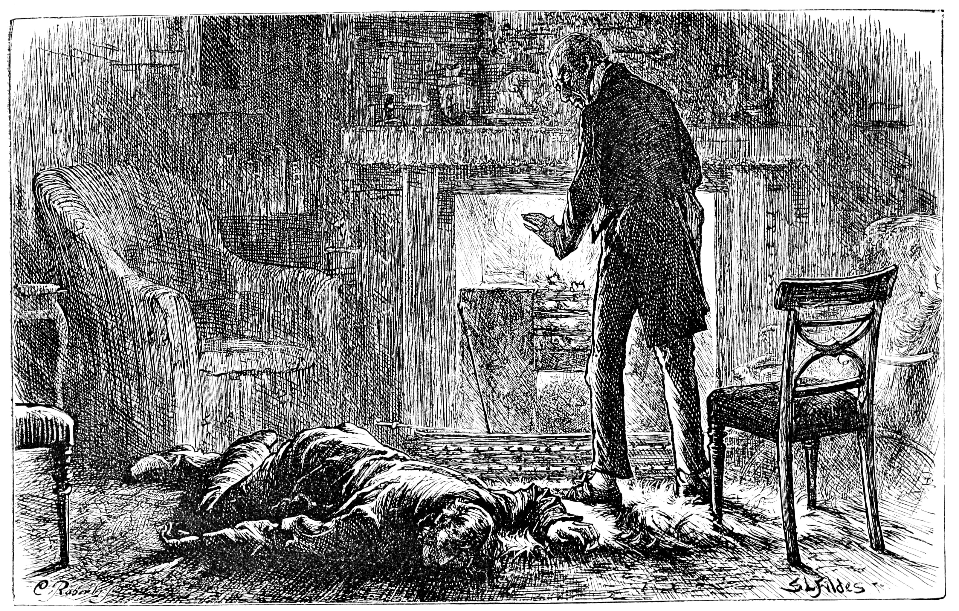 Illustration from the book, The Mystery of Edwin Drood, written by Charles Dickens, illustrated by Luke Fides